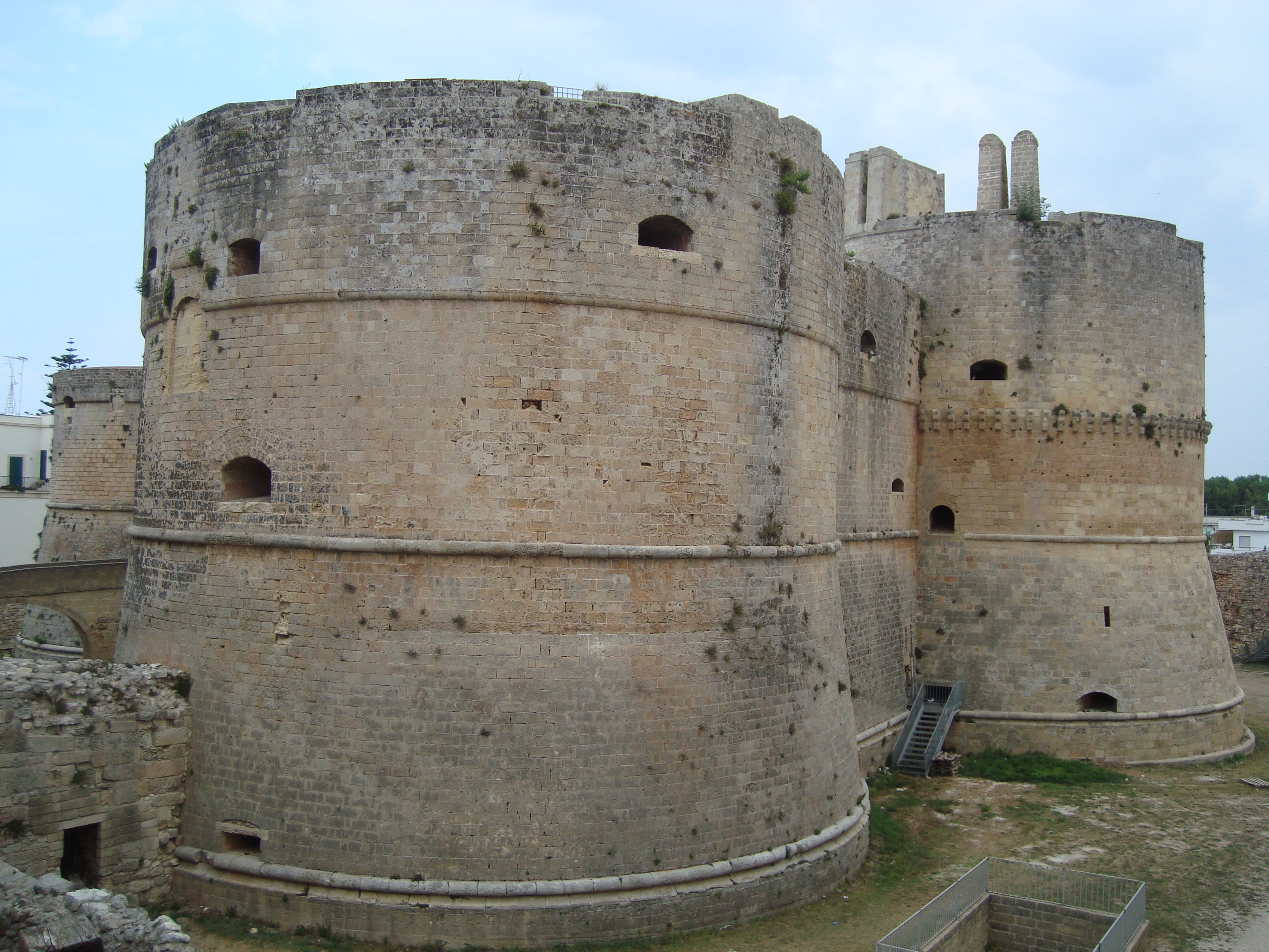 The Castel of Otranto, Apulia